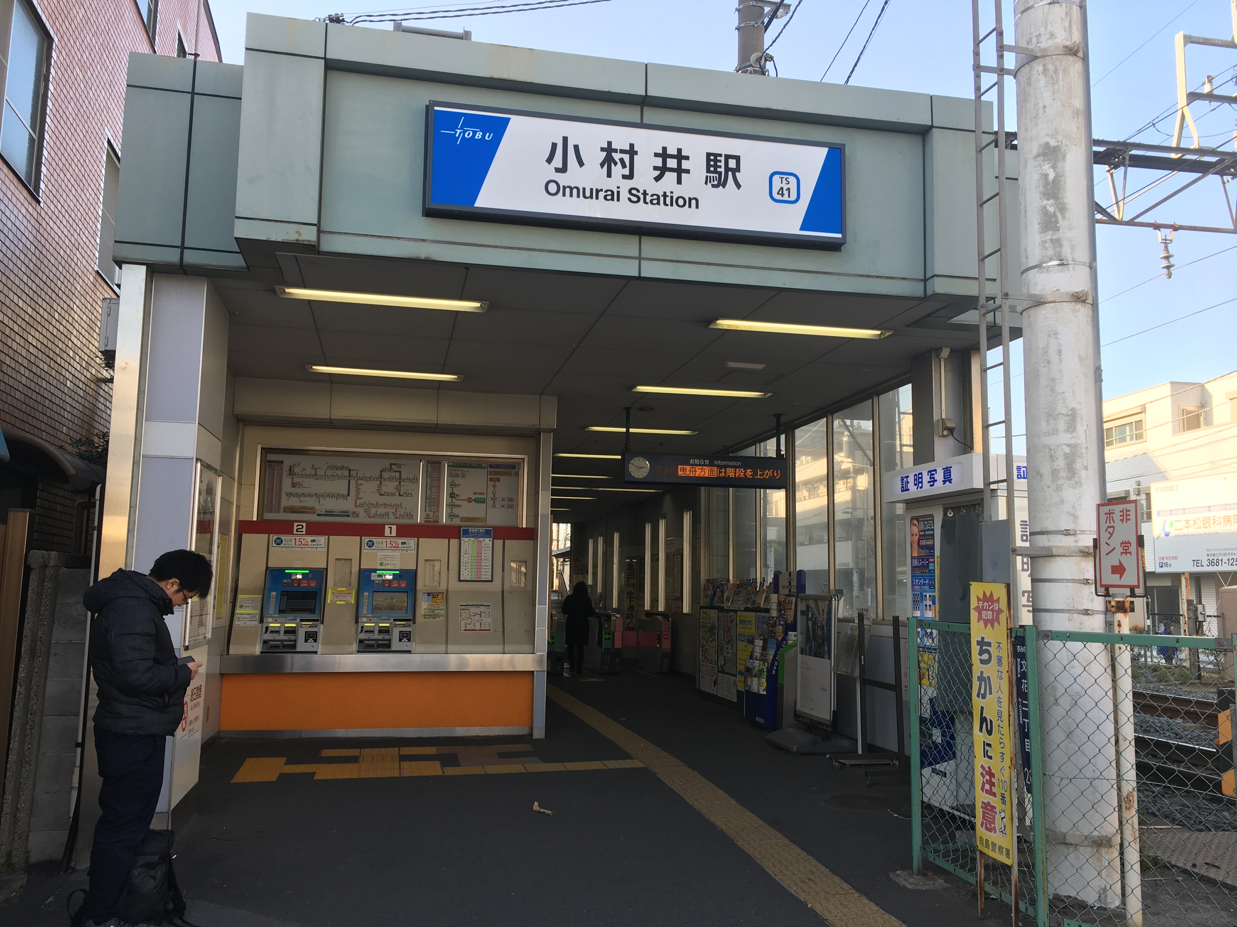 小村井駅 (Omurai Station)